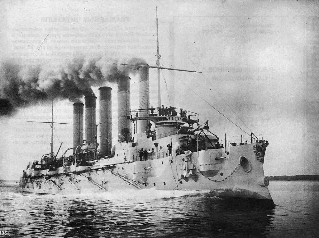 Imperial Russian cruiser Askol'd.